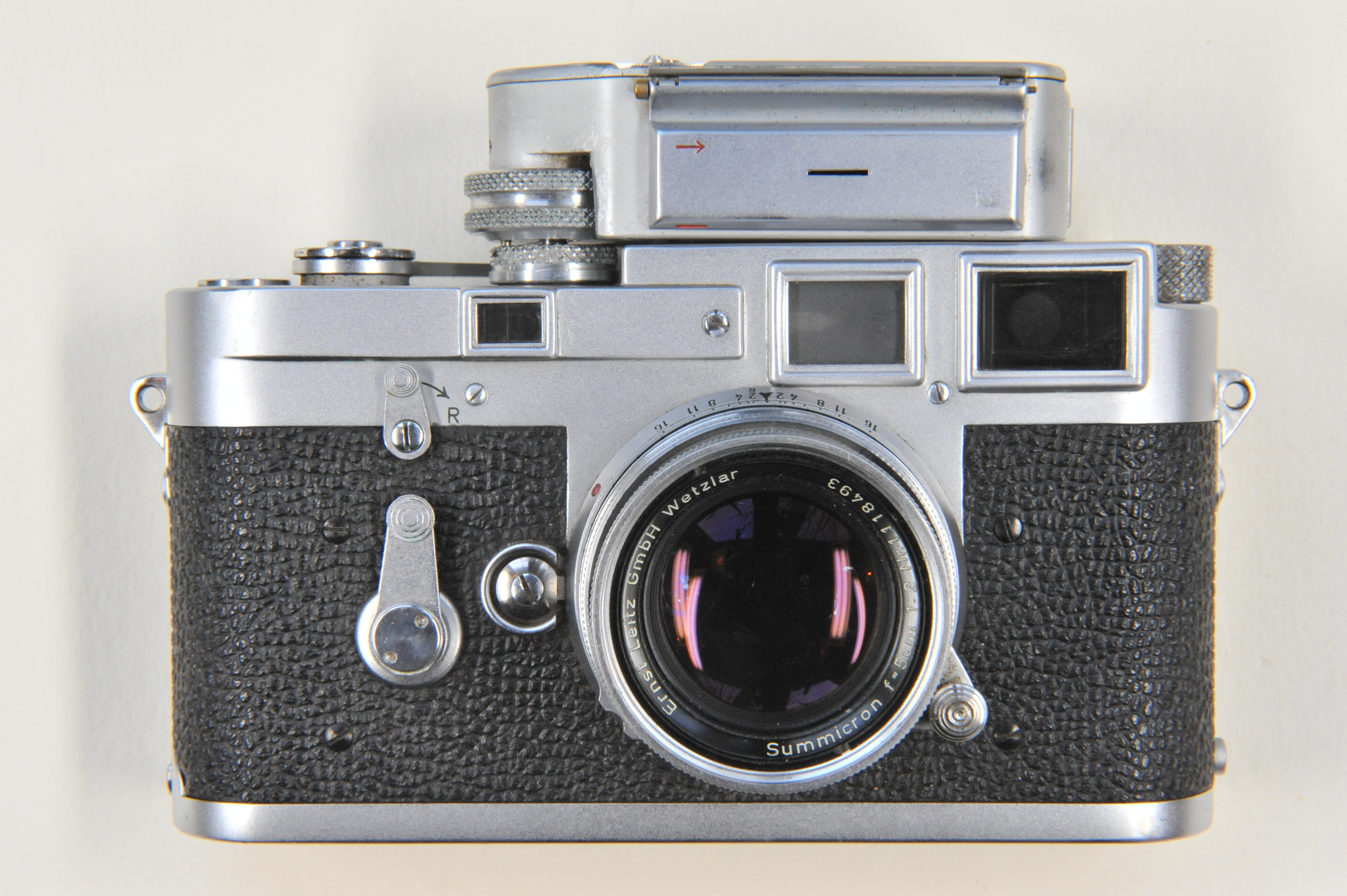 Leica M3 with lighmeter